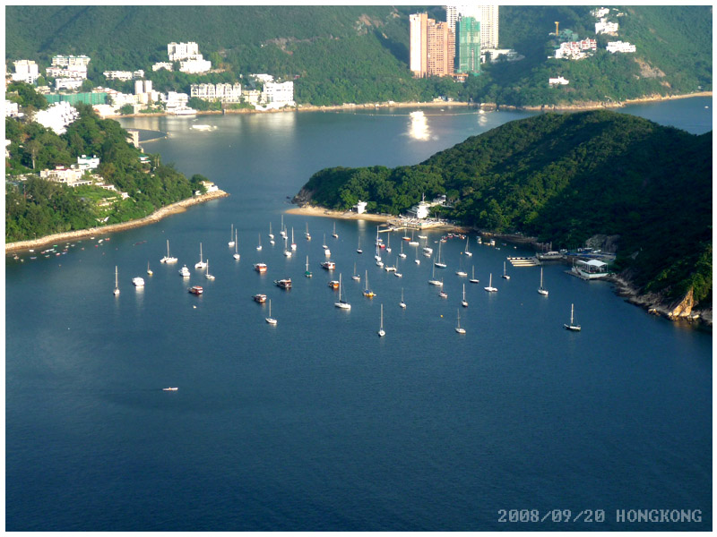 Deep Water Bay & Repulse Bay